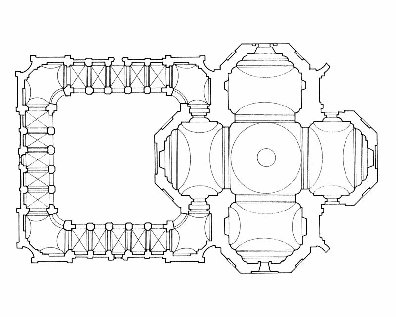 Ground plan of Pilgrimage Church of the Annunciation of the Virgin Mary and Cistercian Provost Office in Mariánská Týnice by Jan Santini Aichel